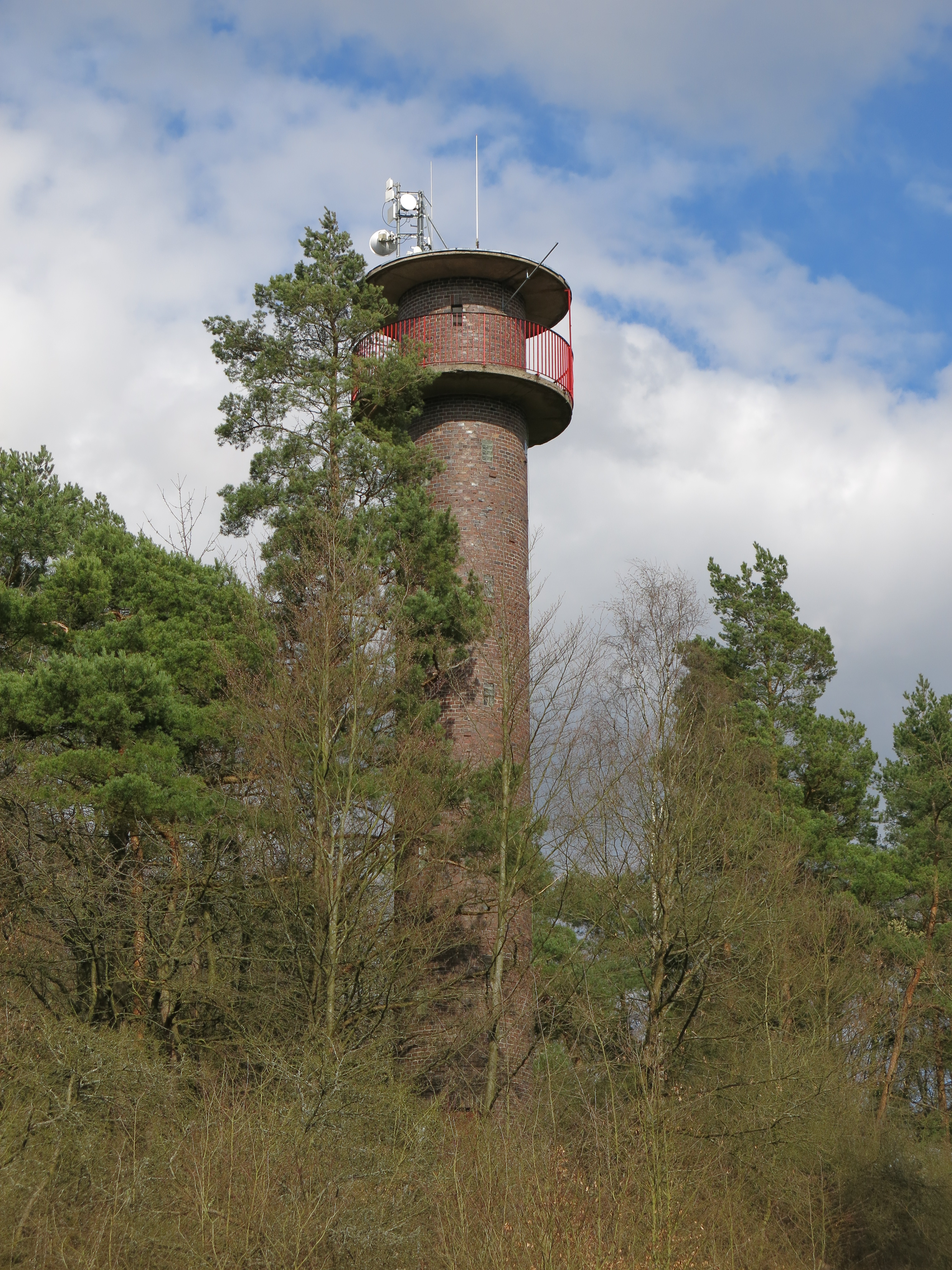 The look-out-tower on Ofenberg near Wolfhagen in Hesse, seen from southwest